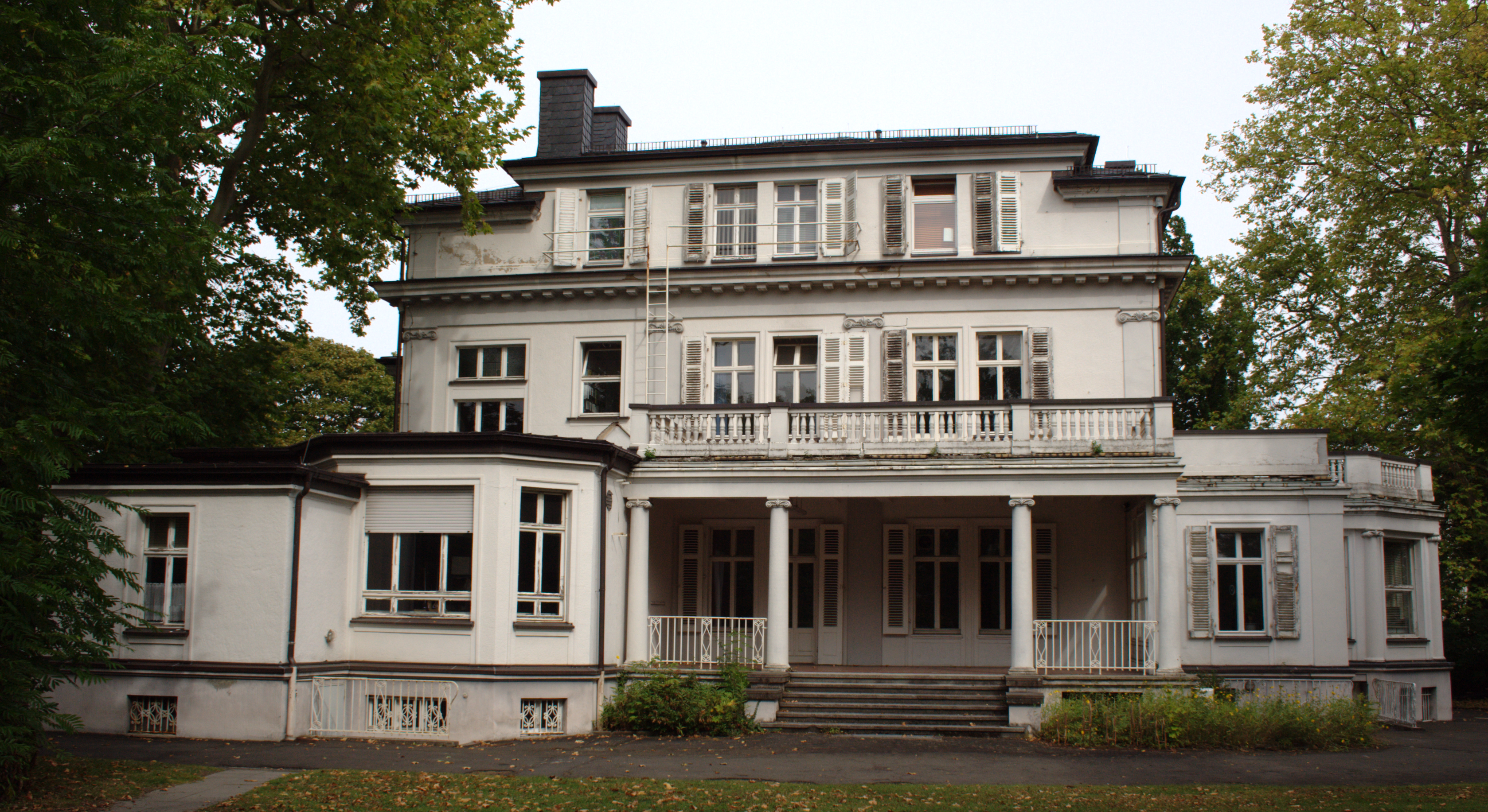 Building in Gießen Wilhelmstraße 20 / Hesse / Germany